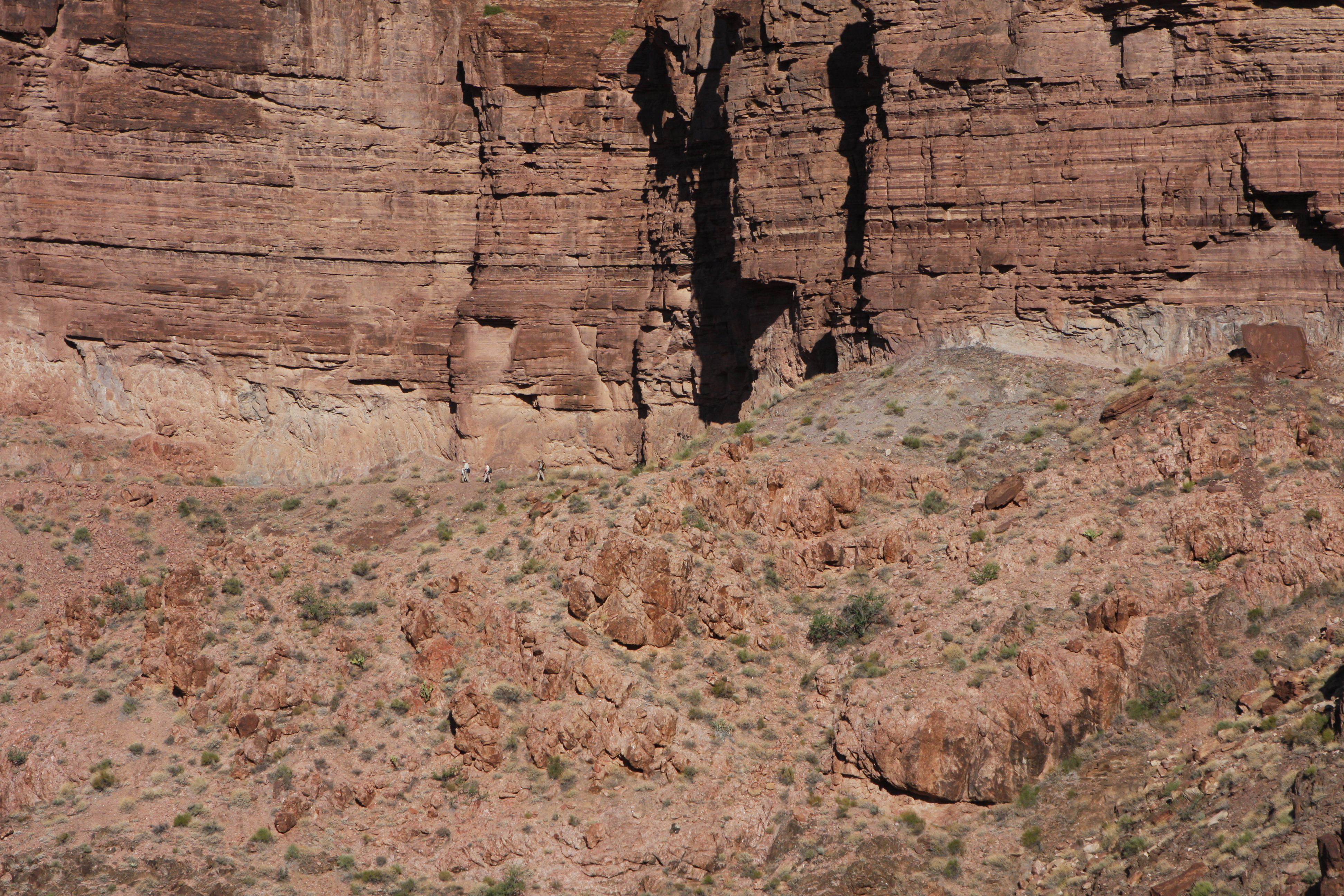 There is about a 1.2 billion year gap in the rock - that is the Great Unconformity,, and this hike provided an excellent view. "Powell's unconformity in the Grand Canyon is between the Tapeats Sandstone of Middle or Lower Cambrian Age, about 500 million years ago, and igneous and metamorphic rock of the Statherian Period of the Paleoproterozoic Eon, around 1700 million years old, give or take a few hundred million years, with a gap of over a billion years. Source Stratigraphy and Timescale Clear Creek trail, Grand Canyon National Park gc 322